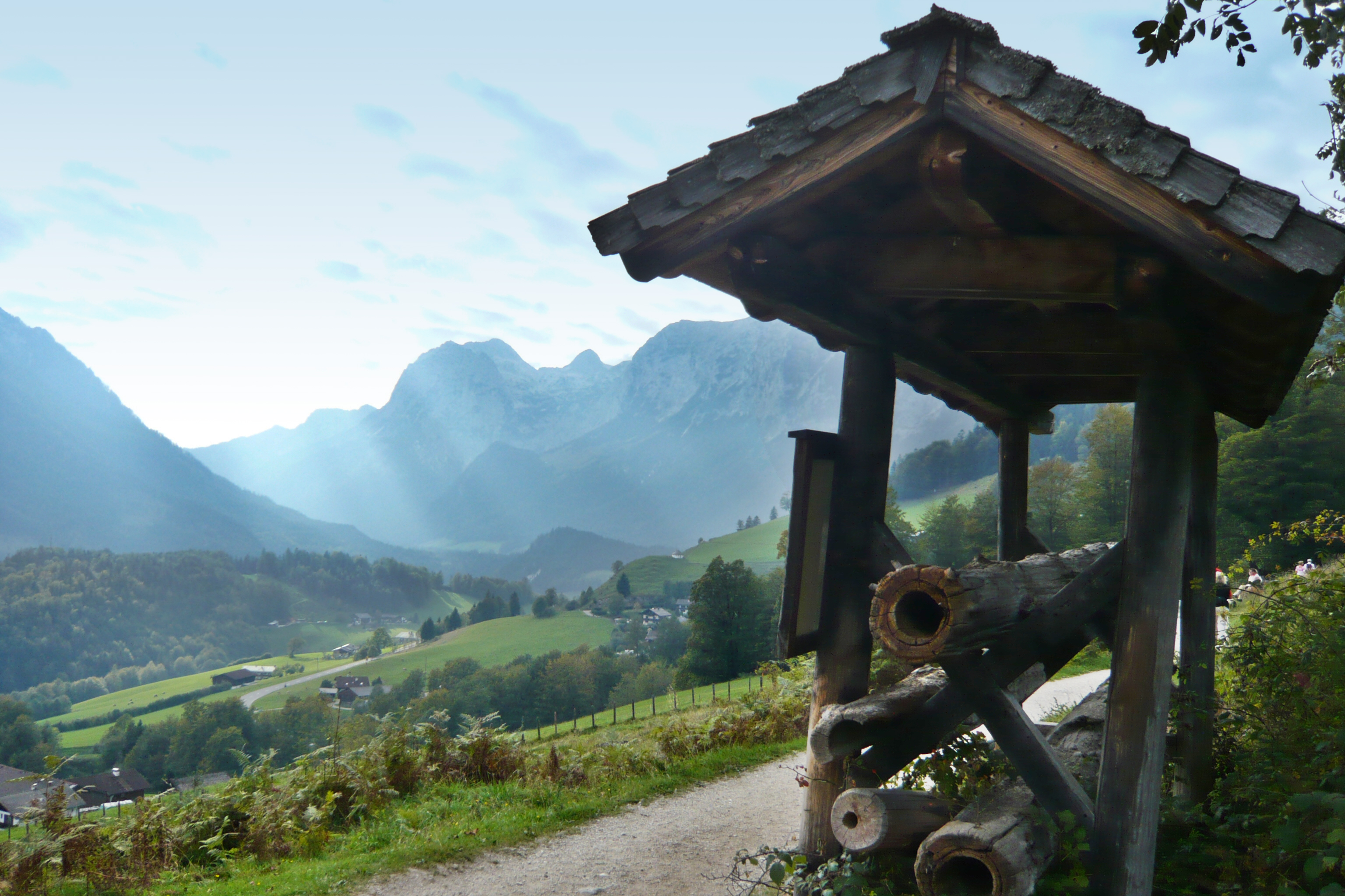 Brine pipeline near Berchtesgaden, Germany